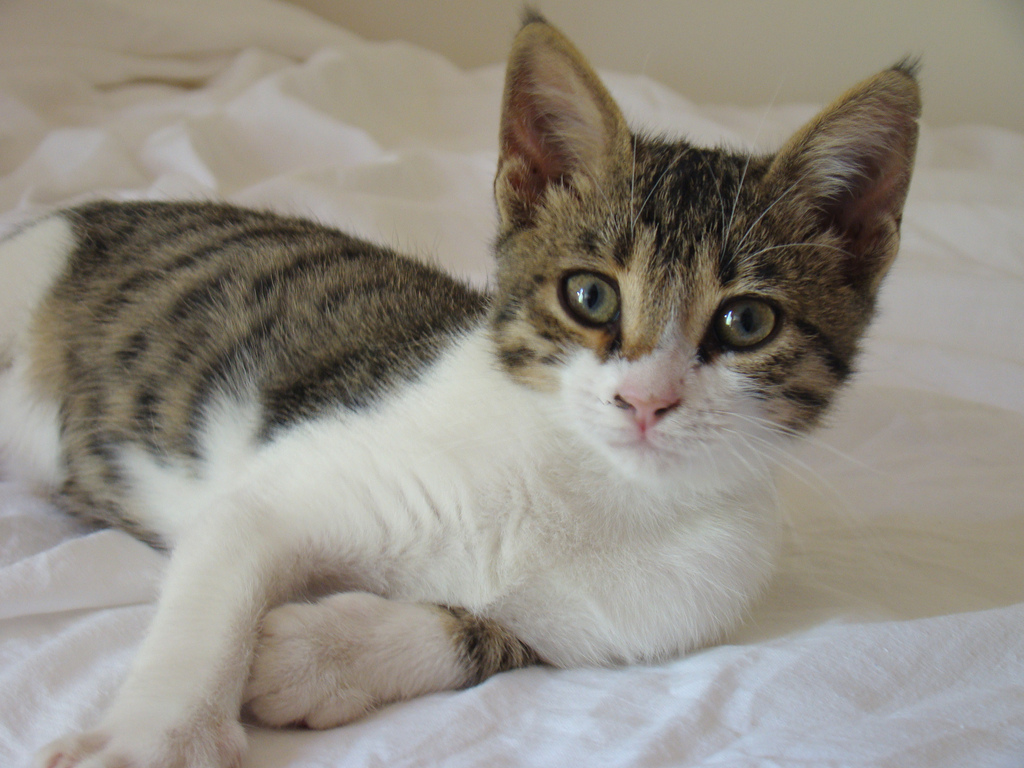 Photograph of Cyprus Shorthair.